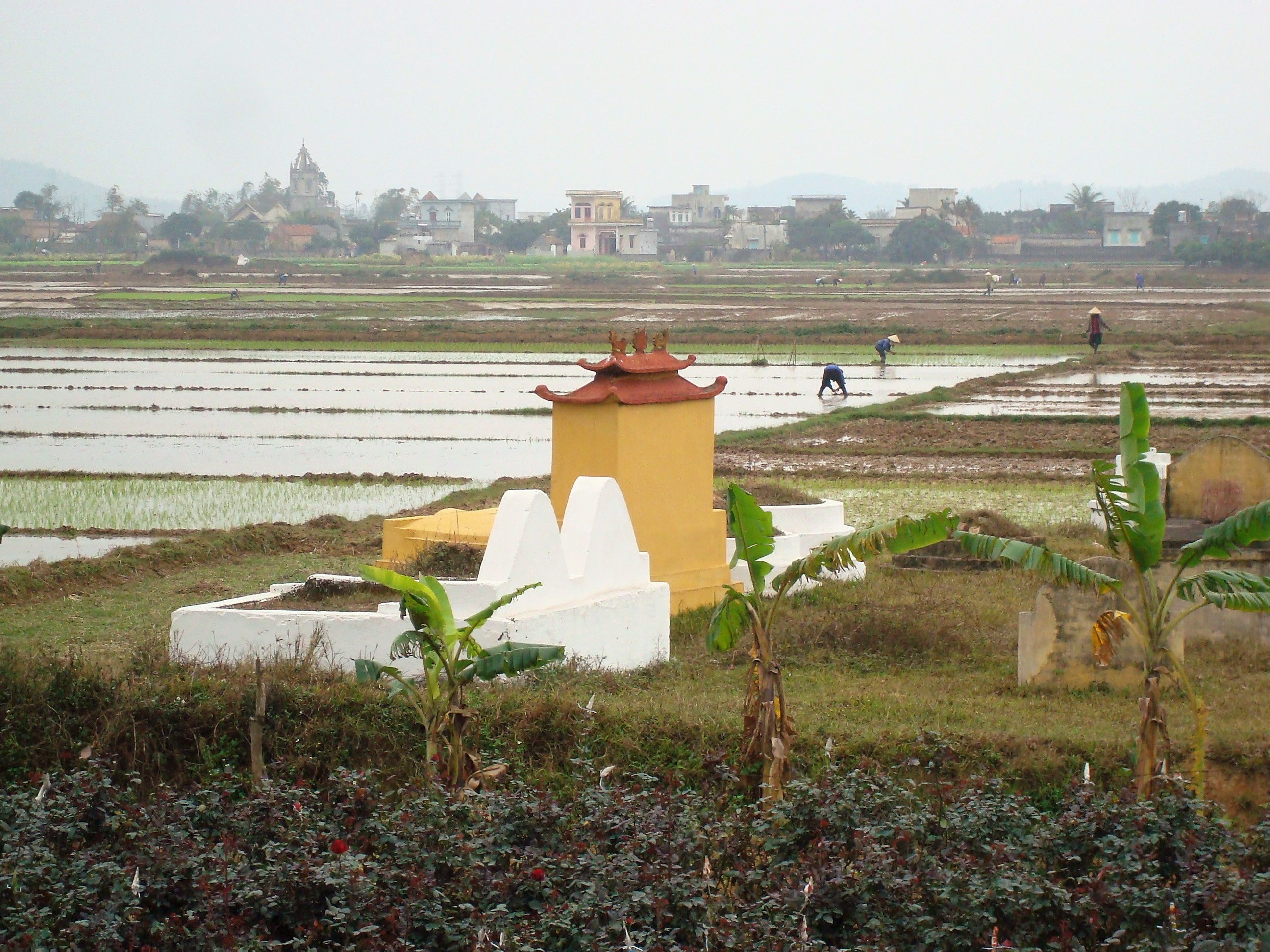 Headstones on a rice field in North Vietnam